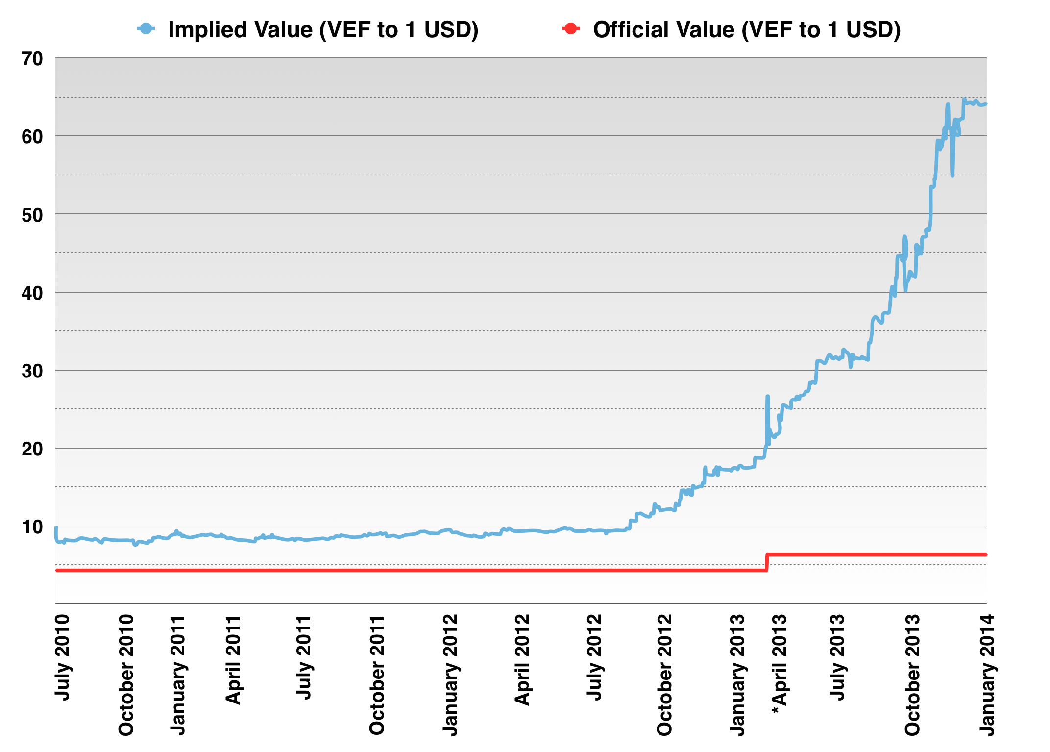 Venezuelan currency black market from 2010 to 2014.